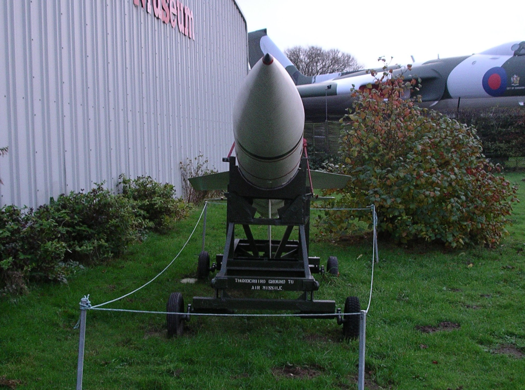 A thunderbird ground to air missile (front view), on show at the Midland Air Museum, Warwickshire, England.